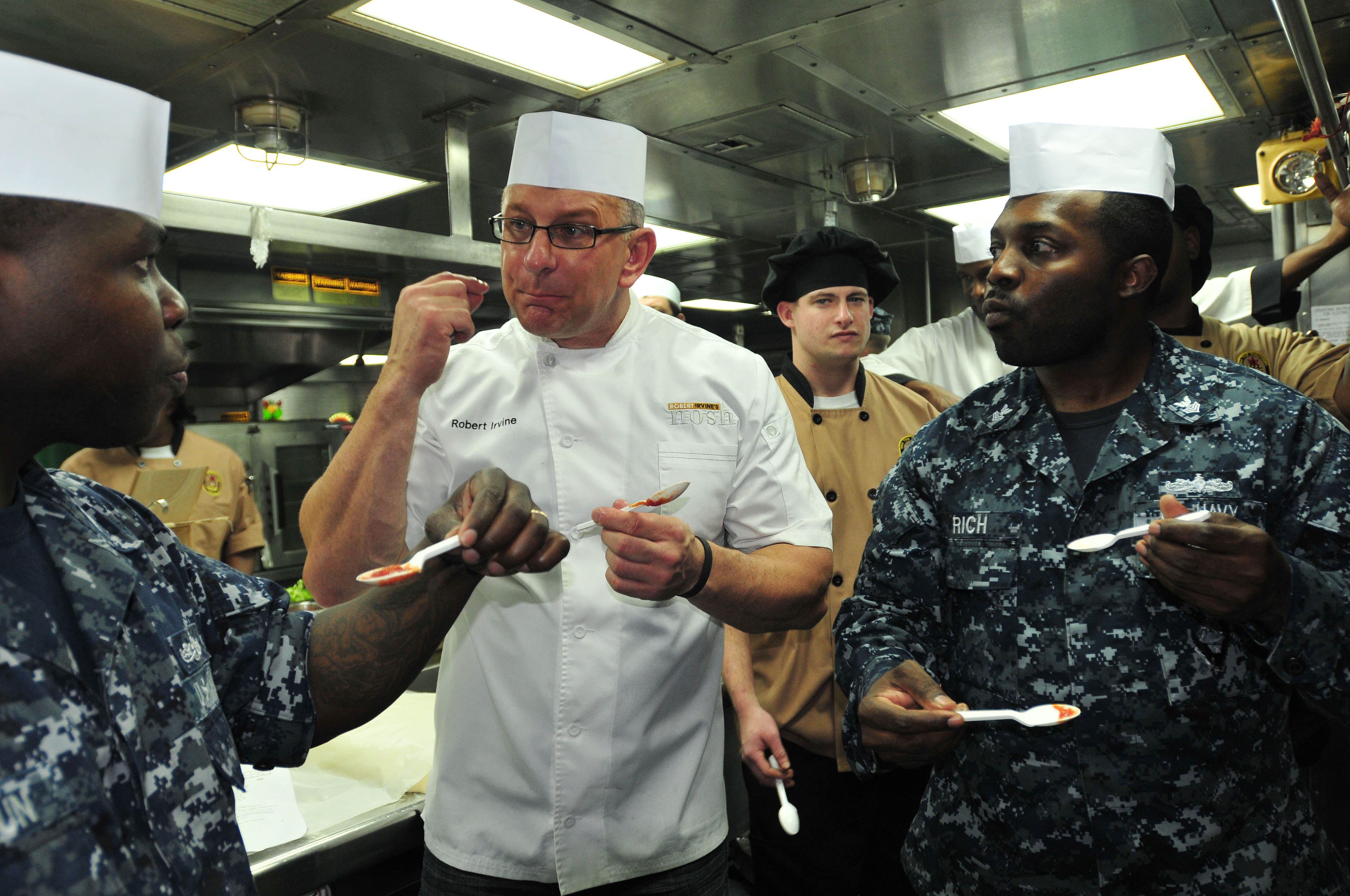 MAYPORT, Fla. (Oct. 23, 2012) Food Network Chef Robert Irvine talks with Culinary Specialist 1st class Romonn Calhoun, left, and Culinary Specialist 1st class Ladale Rich about the importance of tasting a dish while your making it during a cooking lesson aboard the guided-missile destroyer USS The Sullivans (DDG 68). Irvine is visiting several ships stationed at Naval Station Mayport. (U.S. Navy photo by Mass Communication Specialist 1st Class John Parker/Released) 121023-N-BB308-146